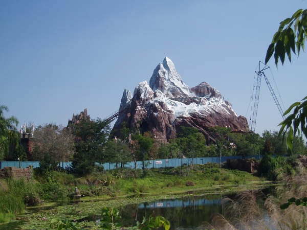 I took this picture in the Disney's Animal Kingdom theme park in October 2005. Don't know the exact date, sorry.